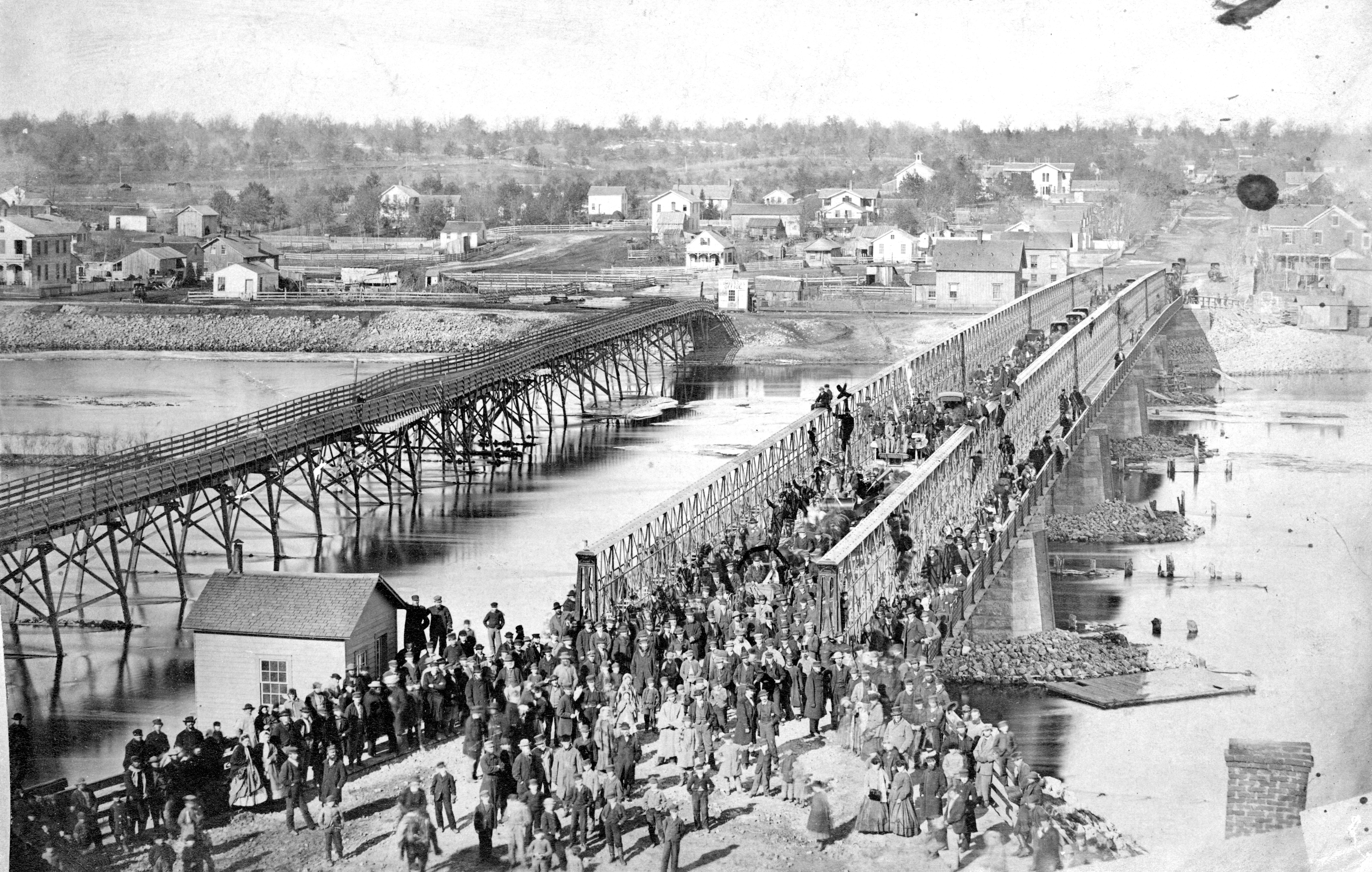 Dixon, Illinois: The Truesdell Bridge was dedicated on January 21, 1869, with a parade led by "Father" John Dixon (seated in center of bridge) and city notables. At 660 feet, this bridge is thought to be Truesdell's longest bridge. This view, looking north, also shows the temporary bridge (on left) used during construction. The river levels are low, probably due to heavy damming required for construction.